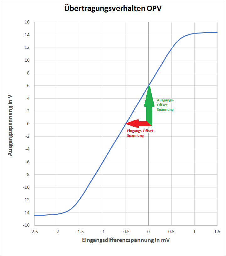 Input and Output offset voltage of an OPV